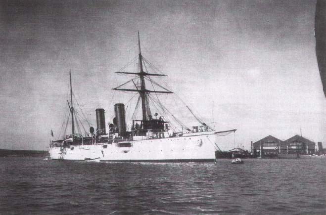 SMS Zenta after commissioning